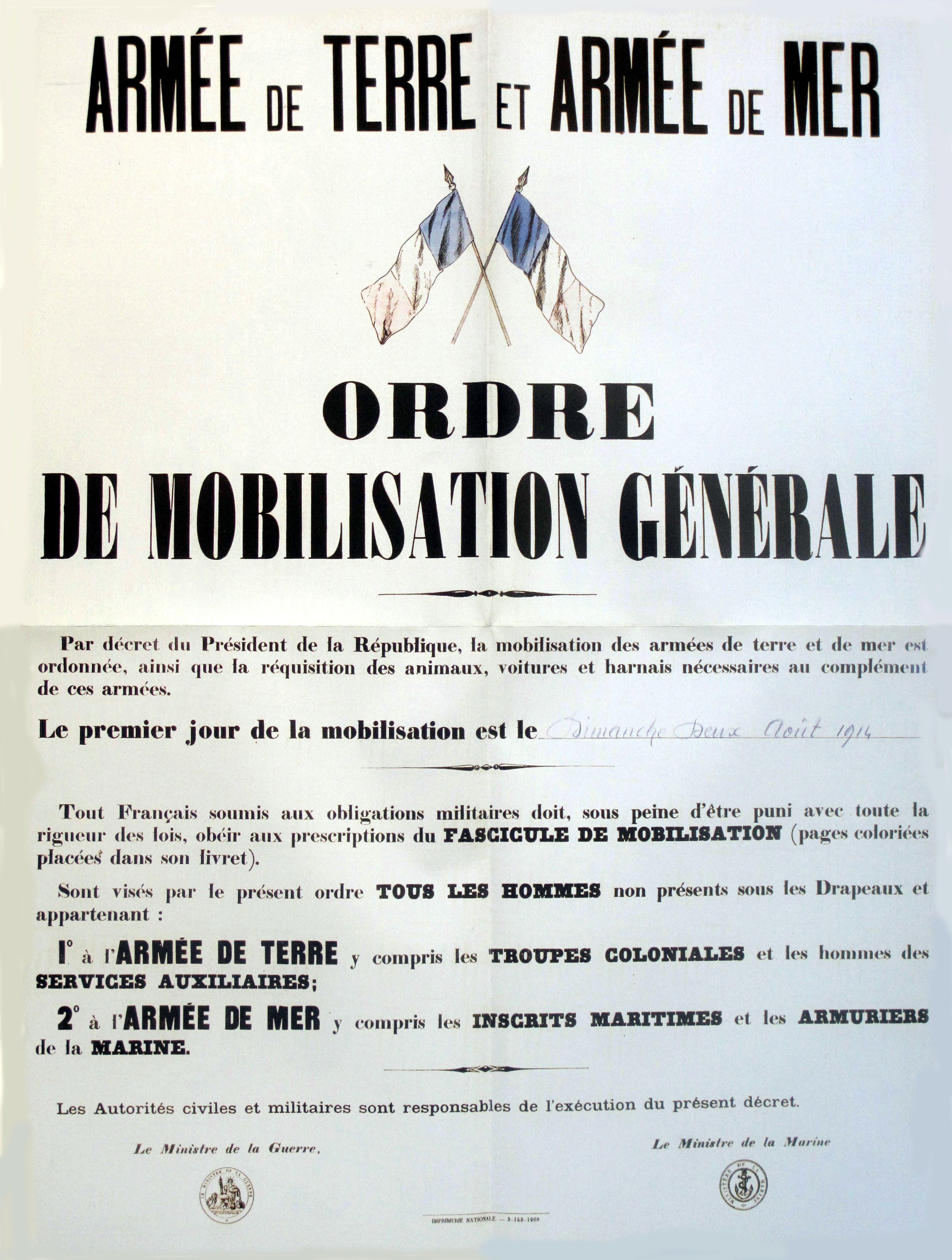 Poster of the mobilization in France on august 2 1914. This poster was put on the walls of all the towns in France